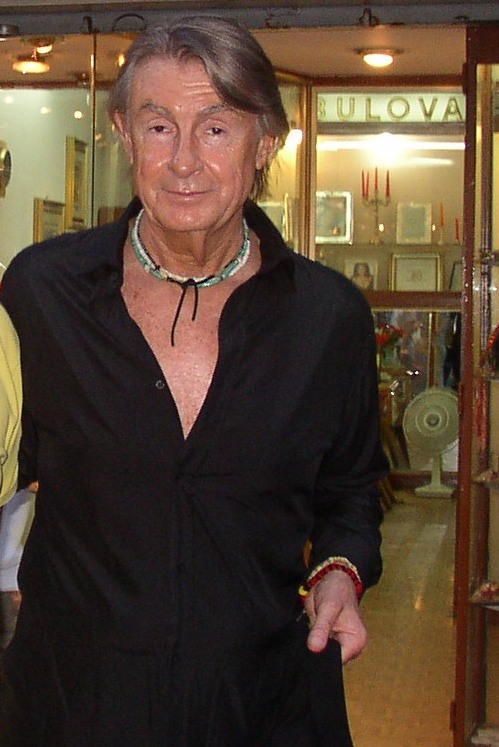 Director Joel Schumacher at Taormina Film Fest 2003